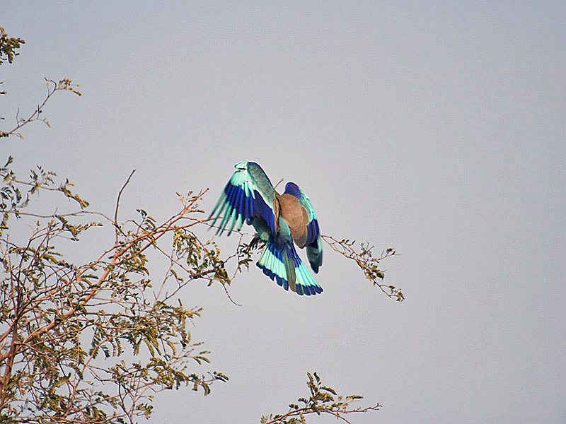 Indian Roller Coracias benghalensis at Bharatpur, Rajasthan, India.